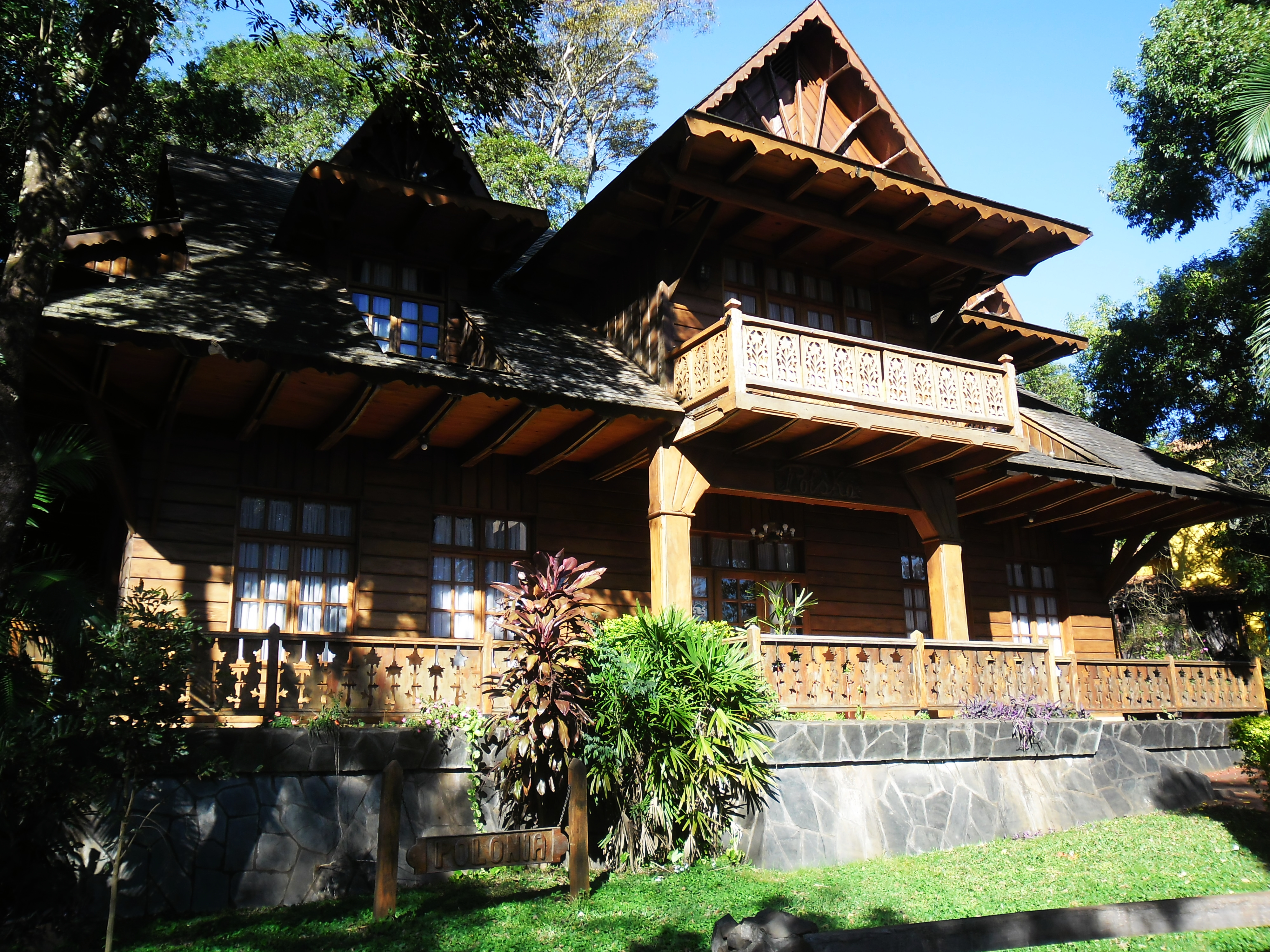 The «Polish House» in the Park of Nations, Oberá.